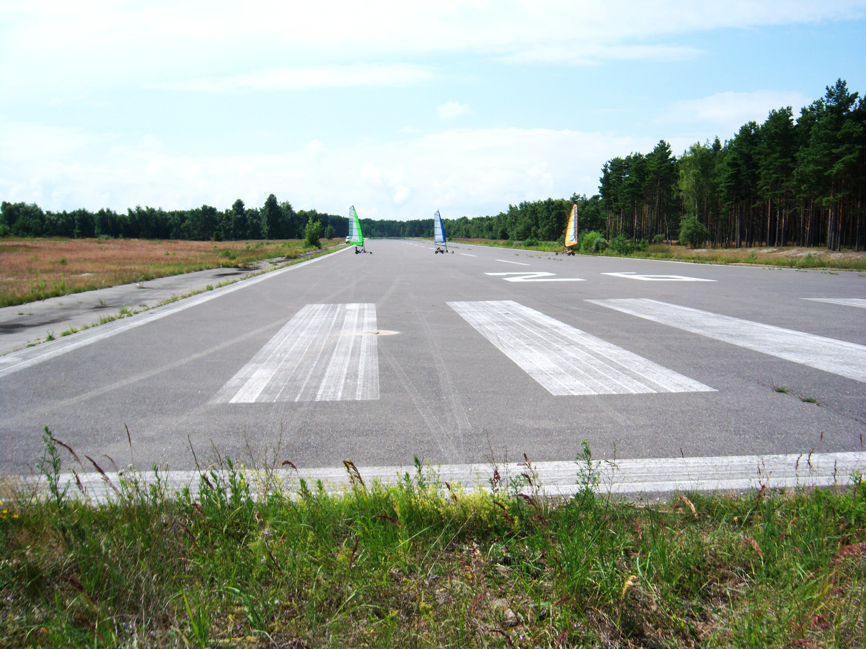 Airfield runway, land sailing, Nida, Lithuania